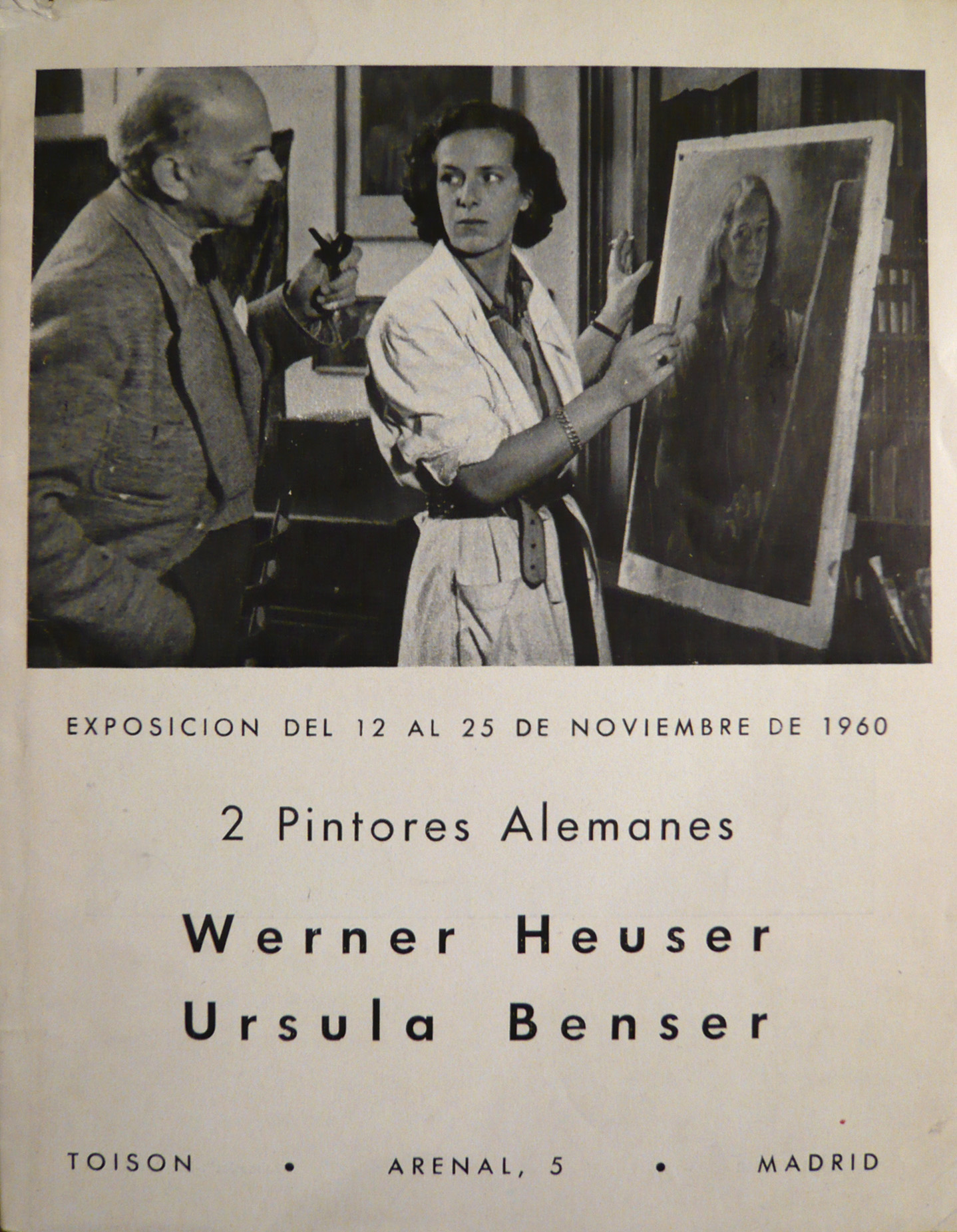 cover of exhibition leaflet "2 Pintores Alemanes: Werner Heuser und Ursula Benser" Exposicion del 12 al 25 Noviembre de 1960 Toison, Arenal 5, Madrid